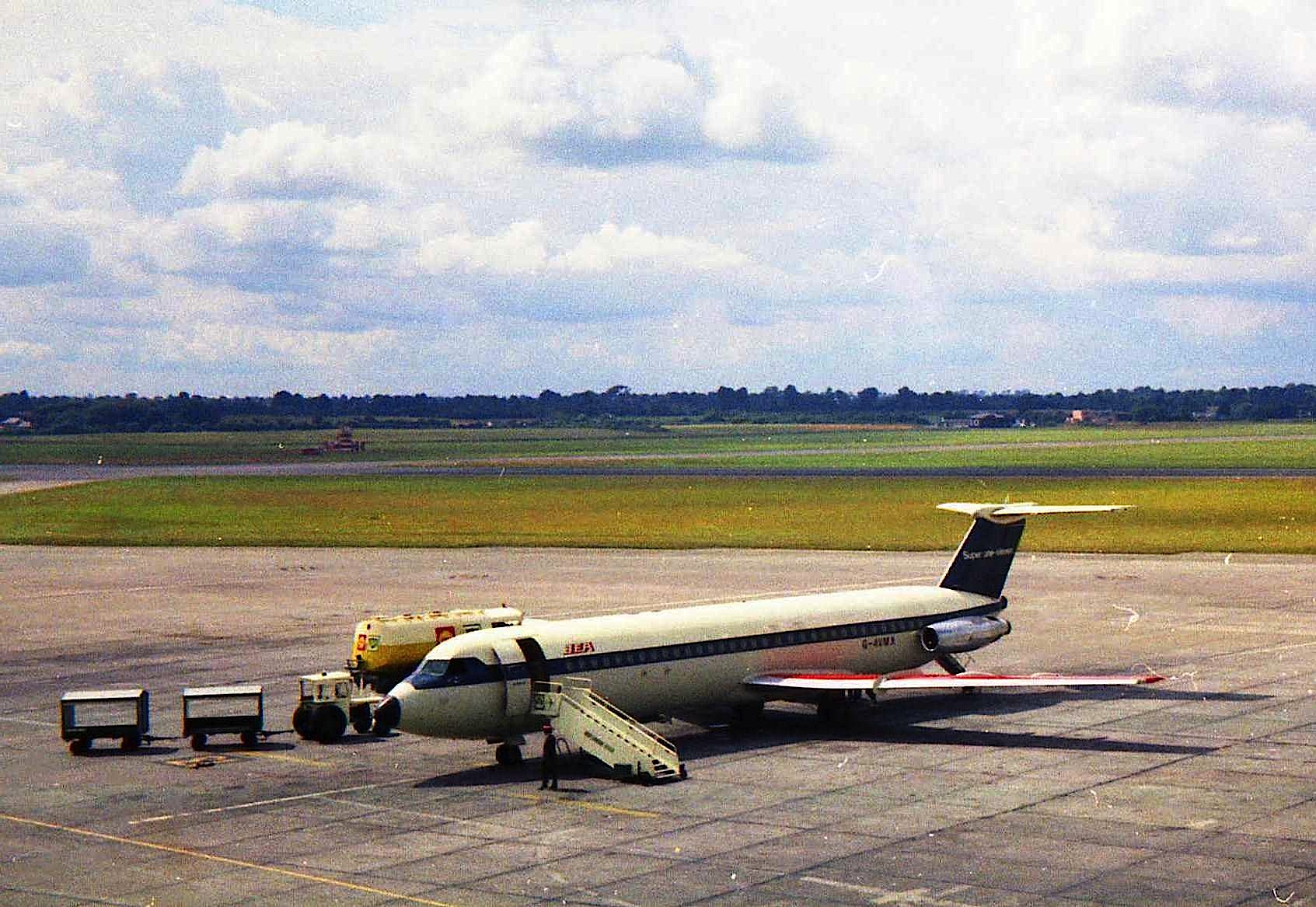 Ireland, Dublin Airport. British European Airways BAC 1-11 Series 510-ED G-AVMX, c/n 151, first flight 1969-06-02, delivered to BEA 1969-06-20. In 1974 merged with British Airways and was named “County of east Sussex”. Withdrawn from use in January 1992 and leased to Okada Air and registered 5N-USE. Delivered to EAL European in May 1993. Broken up in Bournemouth in September 2000.